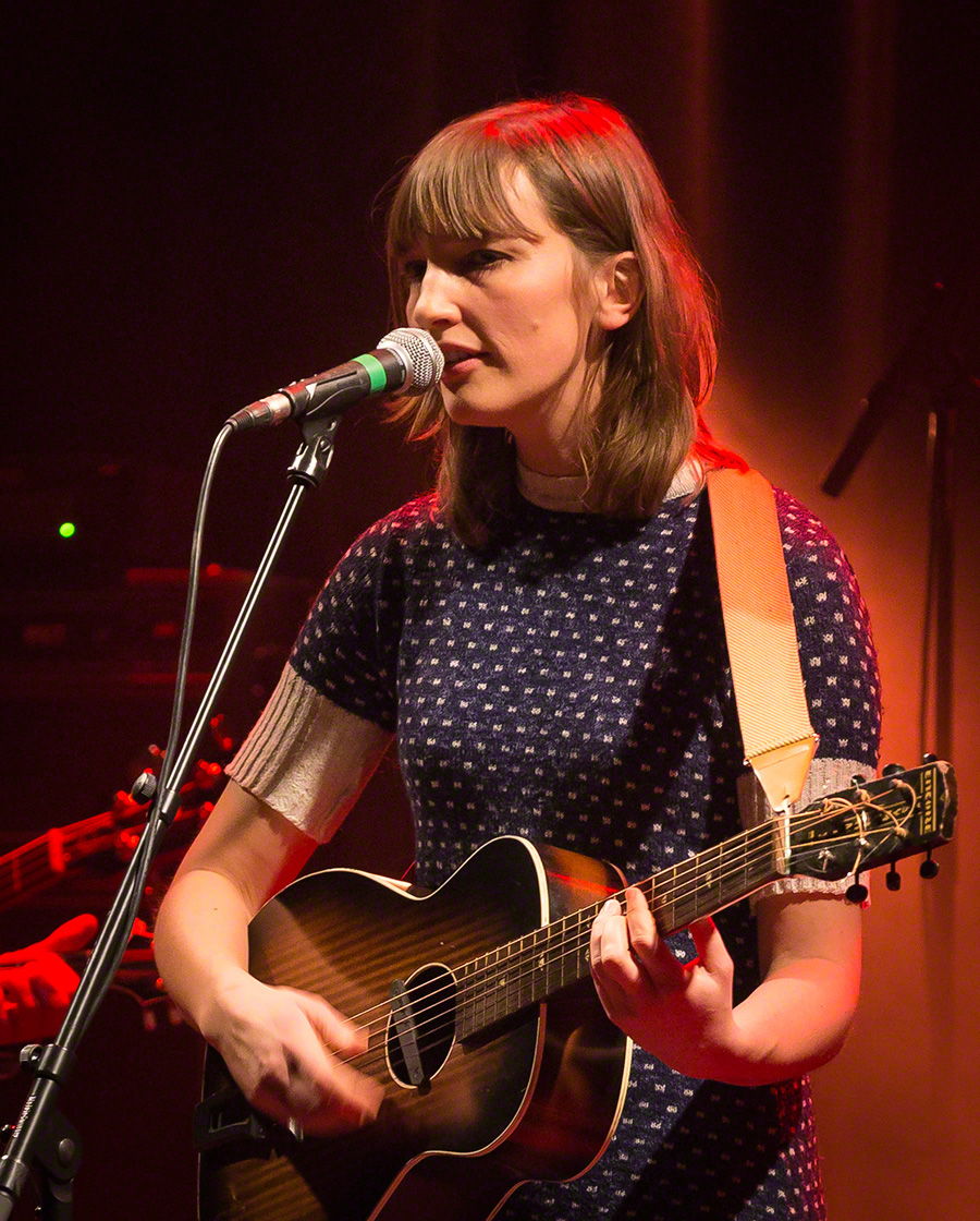 Maria Due is performing with the band Valkyrien Allstars at Cosmopolite in Oslo.